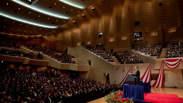 Barack Obama, President, addressed at the Suntory Hall in Minato Ward, Tōkyō Metropolis on November 14, 2009.